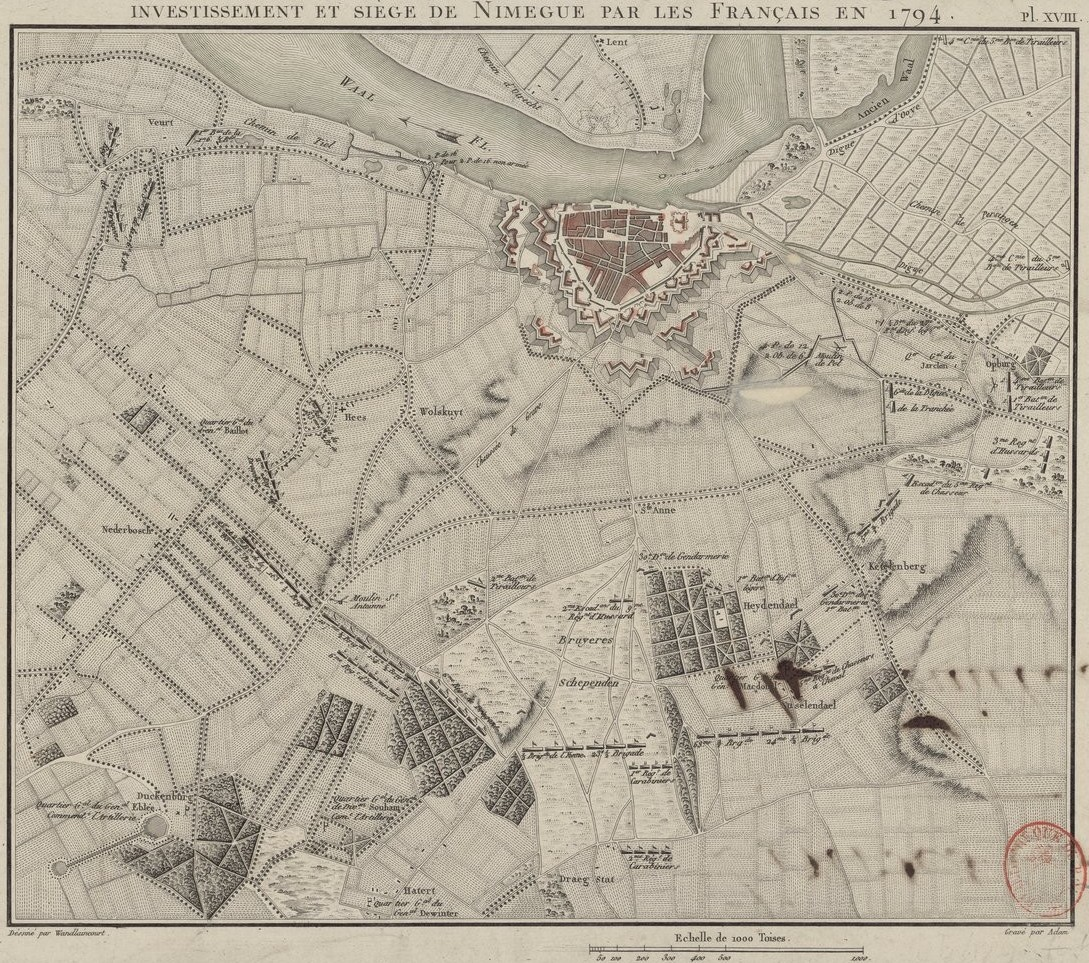 The investment and siege of Nijmegen by the French army in 1794. This map was created by Adam Vandelincourt and first published in Relations des principaux siéges faits ou soutenus en Europe par les armées françaises depuis 1792 (Paris 1806).